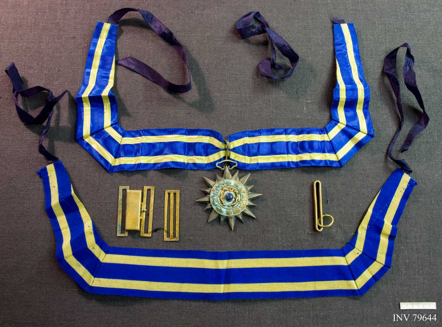 Insignia of the Order of the Double Dragon, China. 4th class. In the collections of Armémuseum, Stockholm, via DigitaltMuseum.